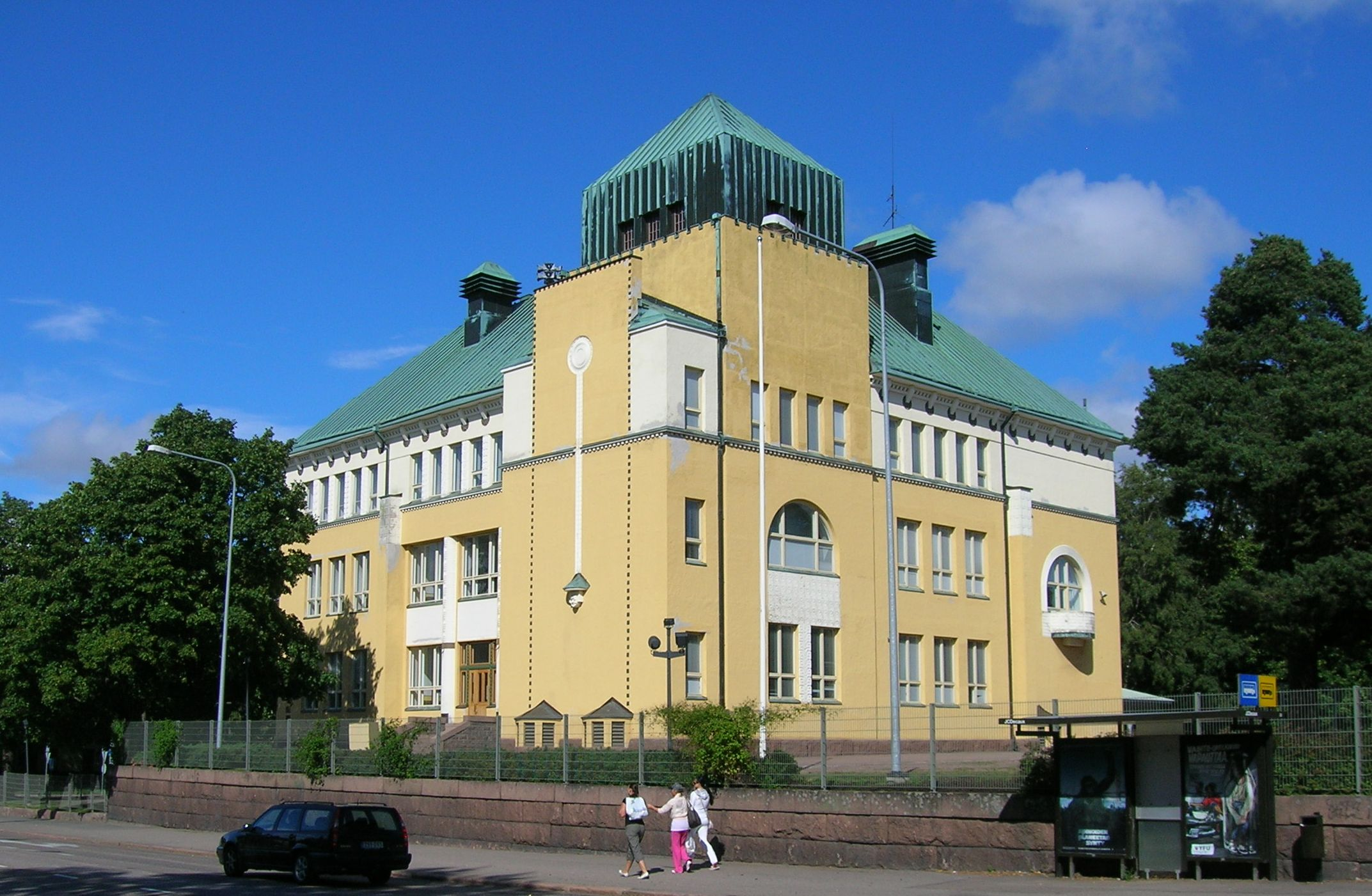 Hovinsaaren koulu, a school building in Kotka, Finland. The building was completed in 1908.